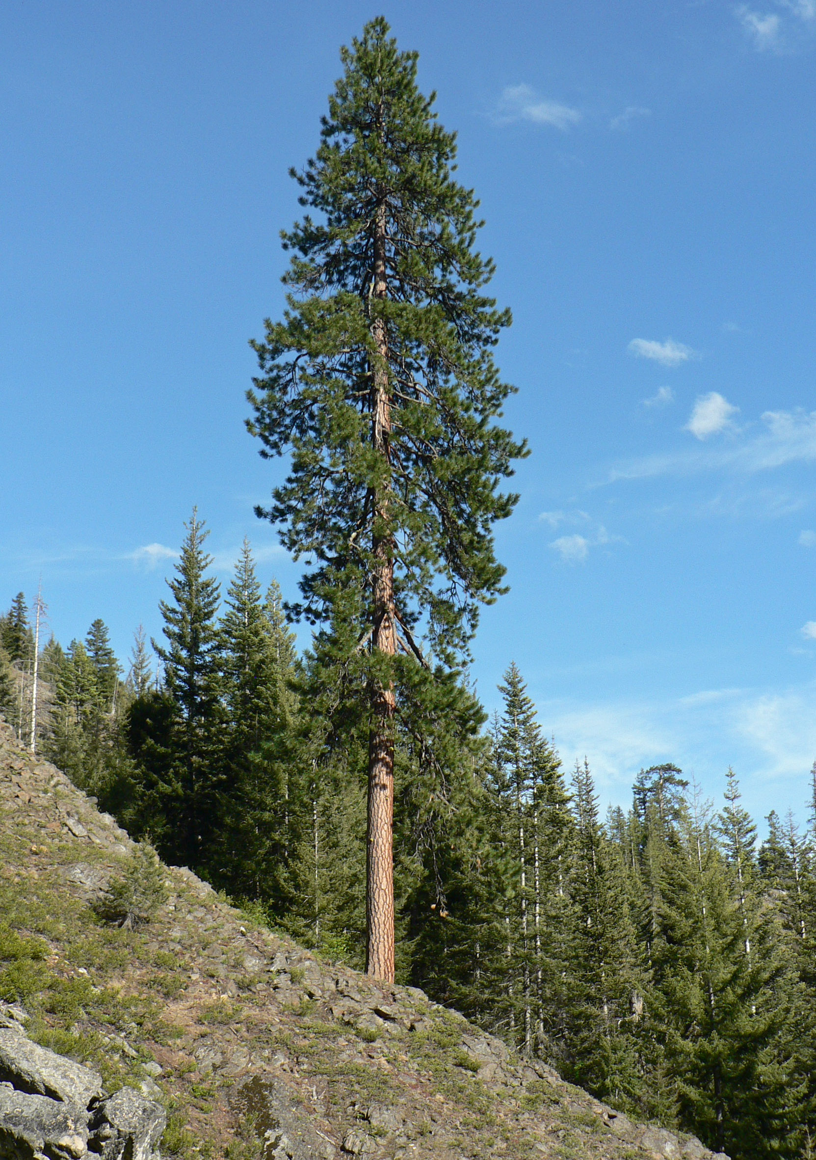 North Plateau Ponderosa Pine